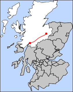 East Highland Way Route Line, Scotland, Kevin Langan, Highland